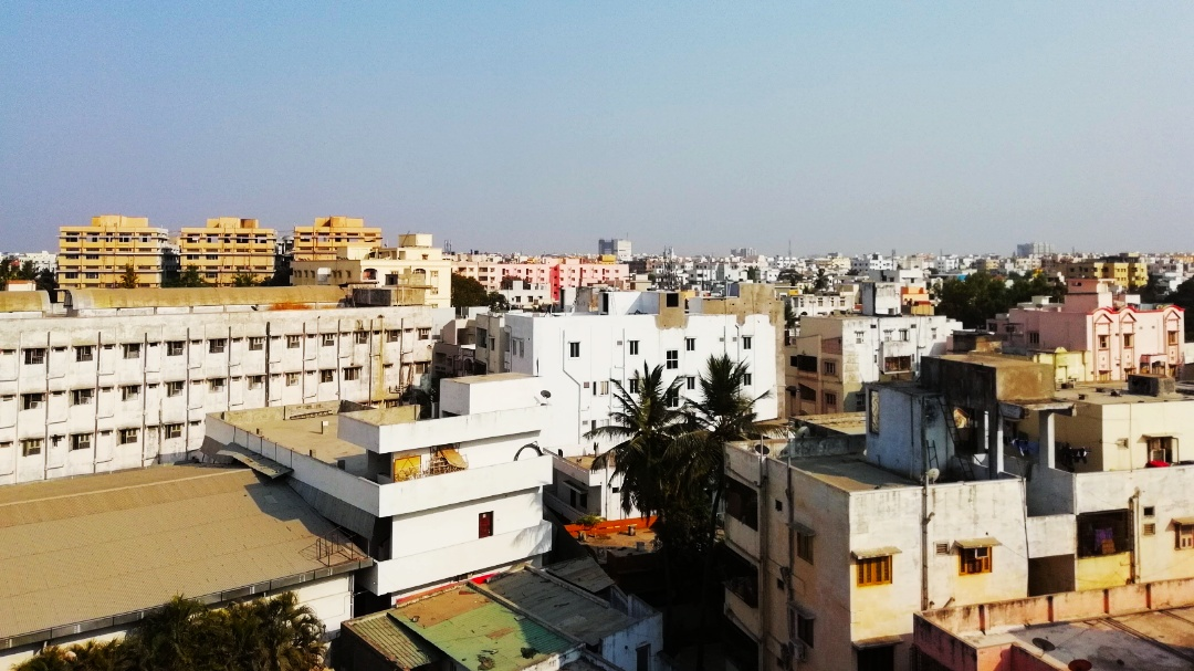 city aerial view